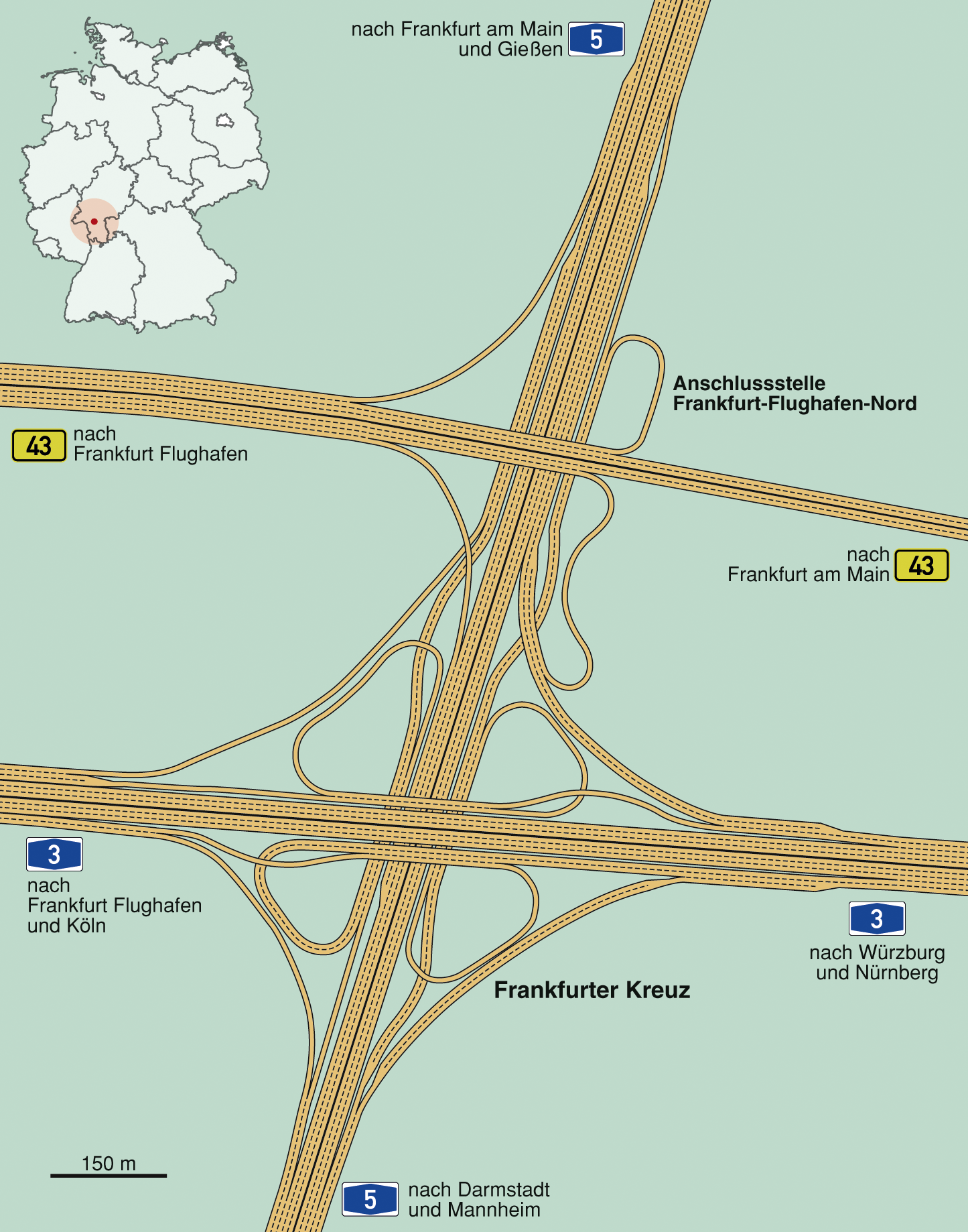 Highway crossing "Frankfurter Kreuz", Germany